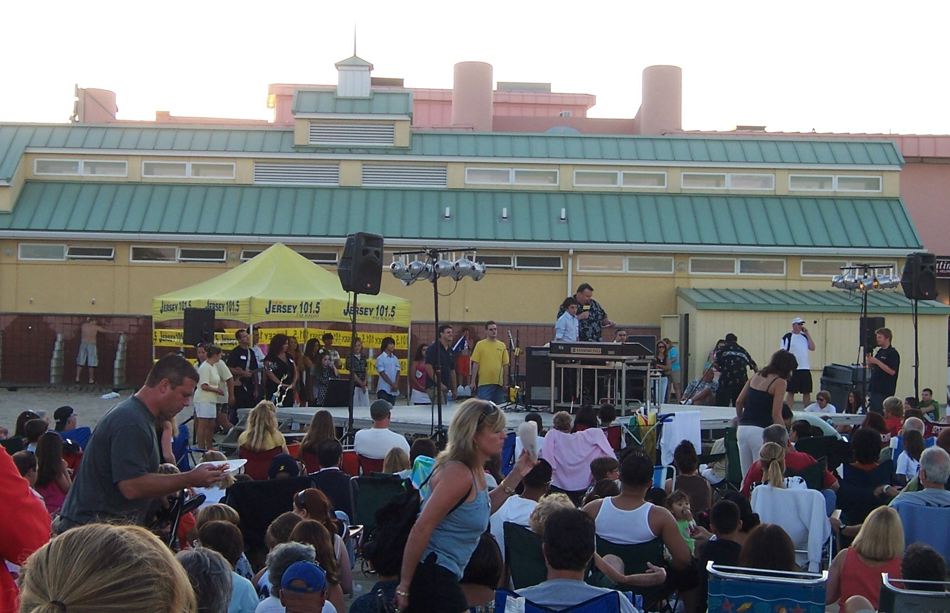 New Jersey 101.5 Big Joe Henry Jersey Talent Contest Finals, Point Pleasant Beach, NJ